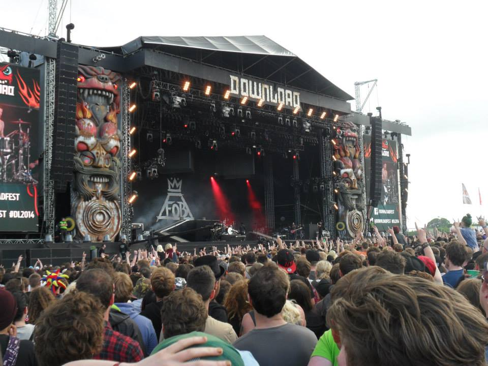 A picture of the main stage of Download Festival 2014